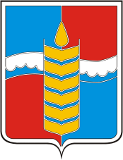 Olekminsk (Yakutia), coat of arms (1985)